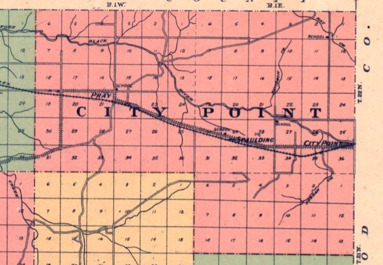 Scan of portion of map of Jackson County from Jackson County 1914 atlas from Webb Publishing Co.